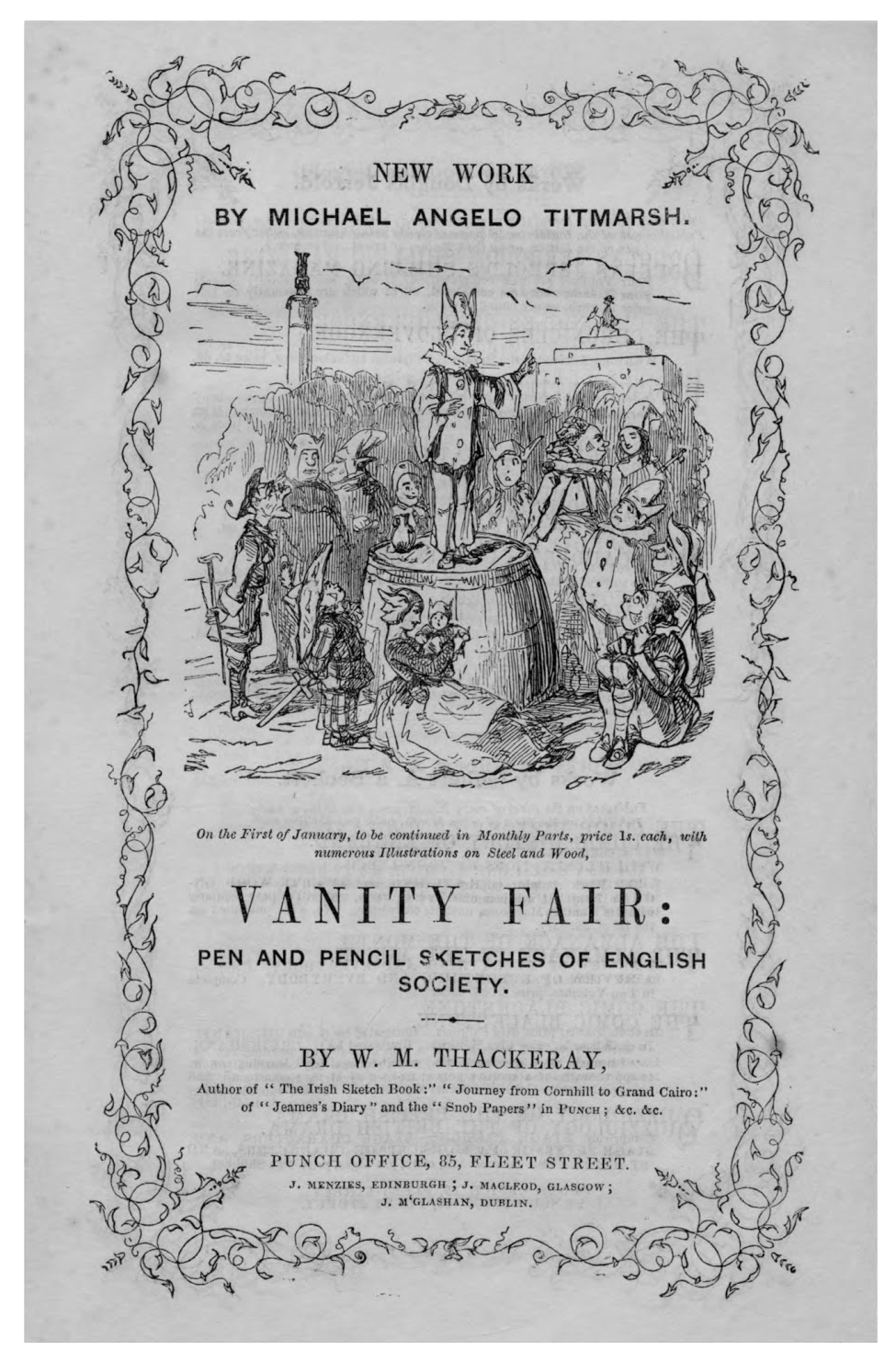 A b/w scan of the prospectus for William Makepeace Thackeray's Vanity Fair serial, mentioning his earlier pen name Michael Angelo Titmarsh and illustrated with his sketch of a band of comic actors in Midas ears and motley standing at Speakers' Corner in Hyde Park